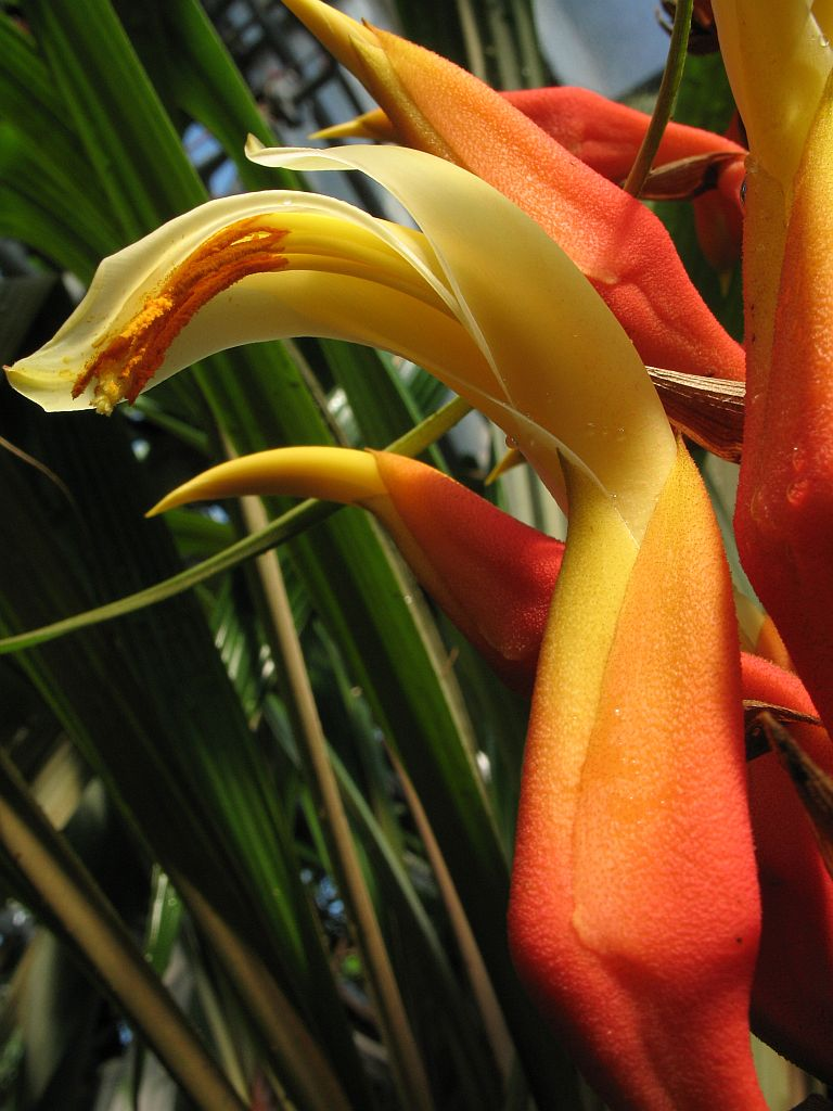 Pitcairnia elvirae, in cultivation at the Botanical Garden of Heidelberg, Germany. This is the type plant of Pepinia verrucosa E. Gross